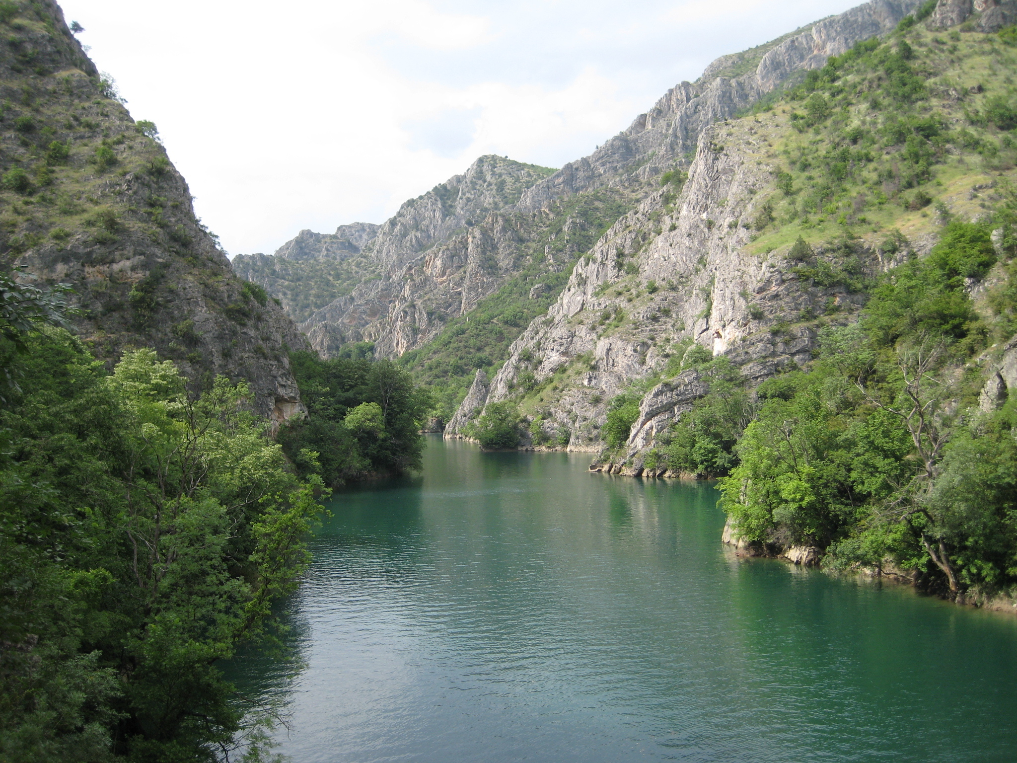 Lake Matka, Republic of Macedonia